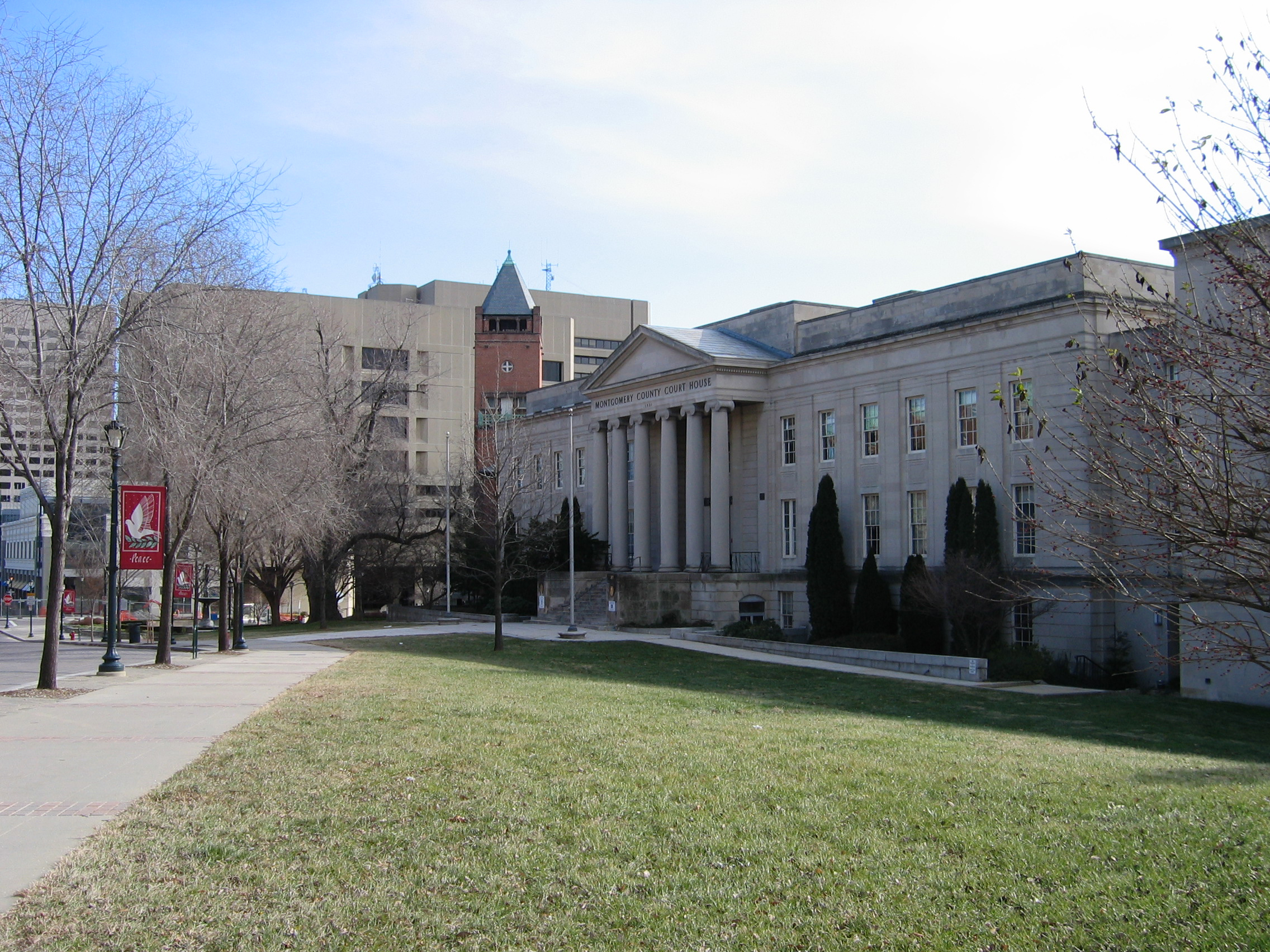 Montgomery County courthouse in Rockville, Maryland. Photo taken by Kmf164 on January 7, 2006.